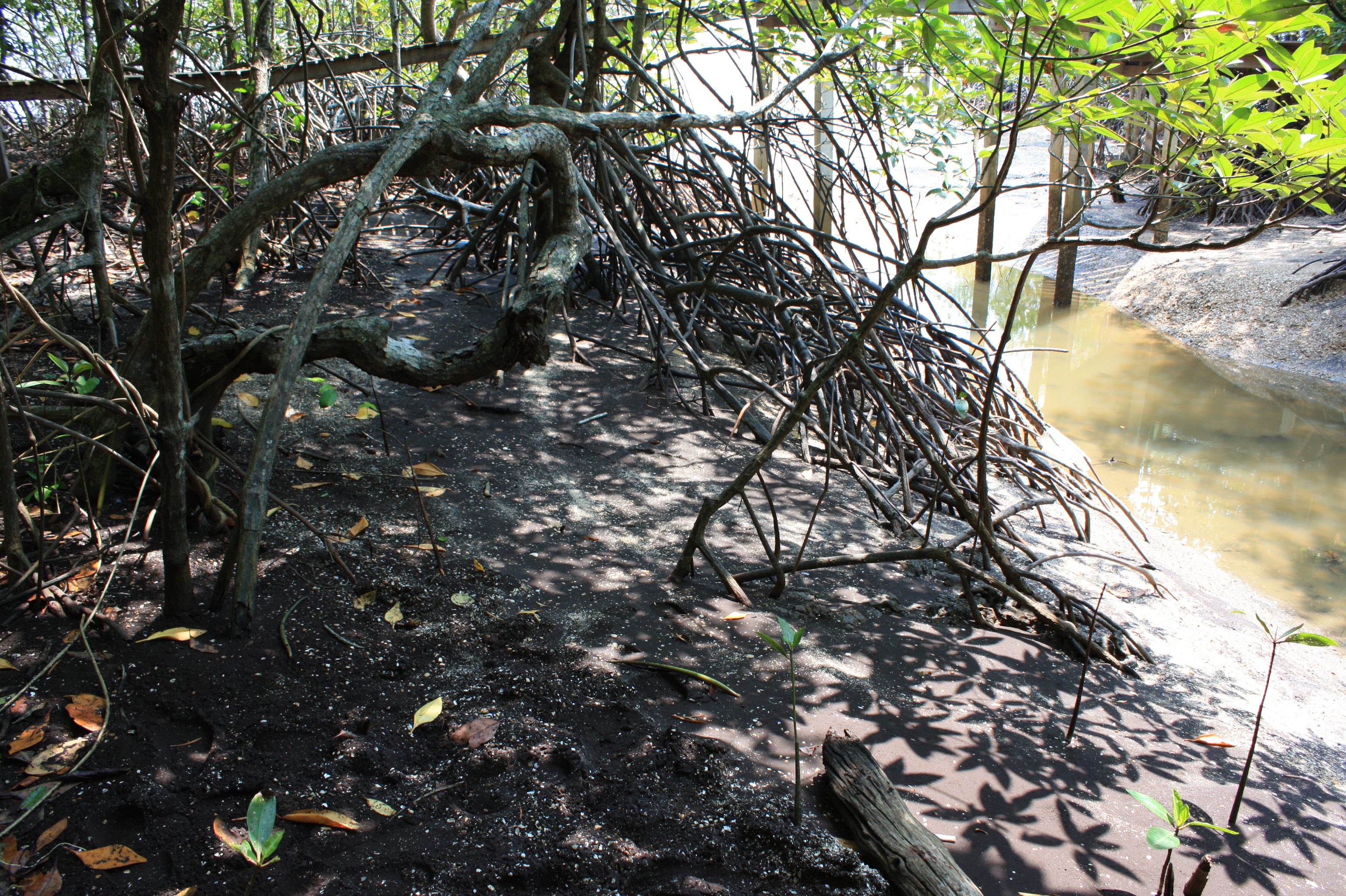 Black sand deposited in a mangrove forest near a black sand beach in Laem Ngob district, Trat province, Thailand